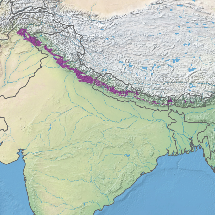 Ecoregion IM0301 - Himalayan subtropical pine forests (in purple)